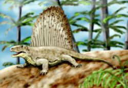 dimetrodon